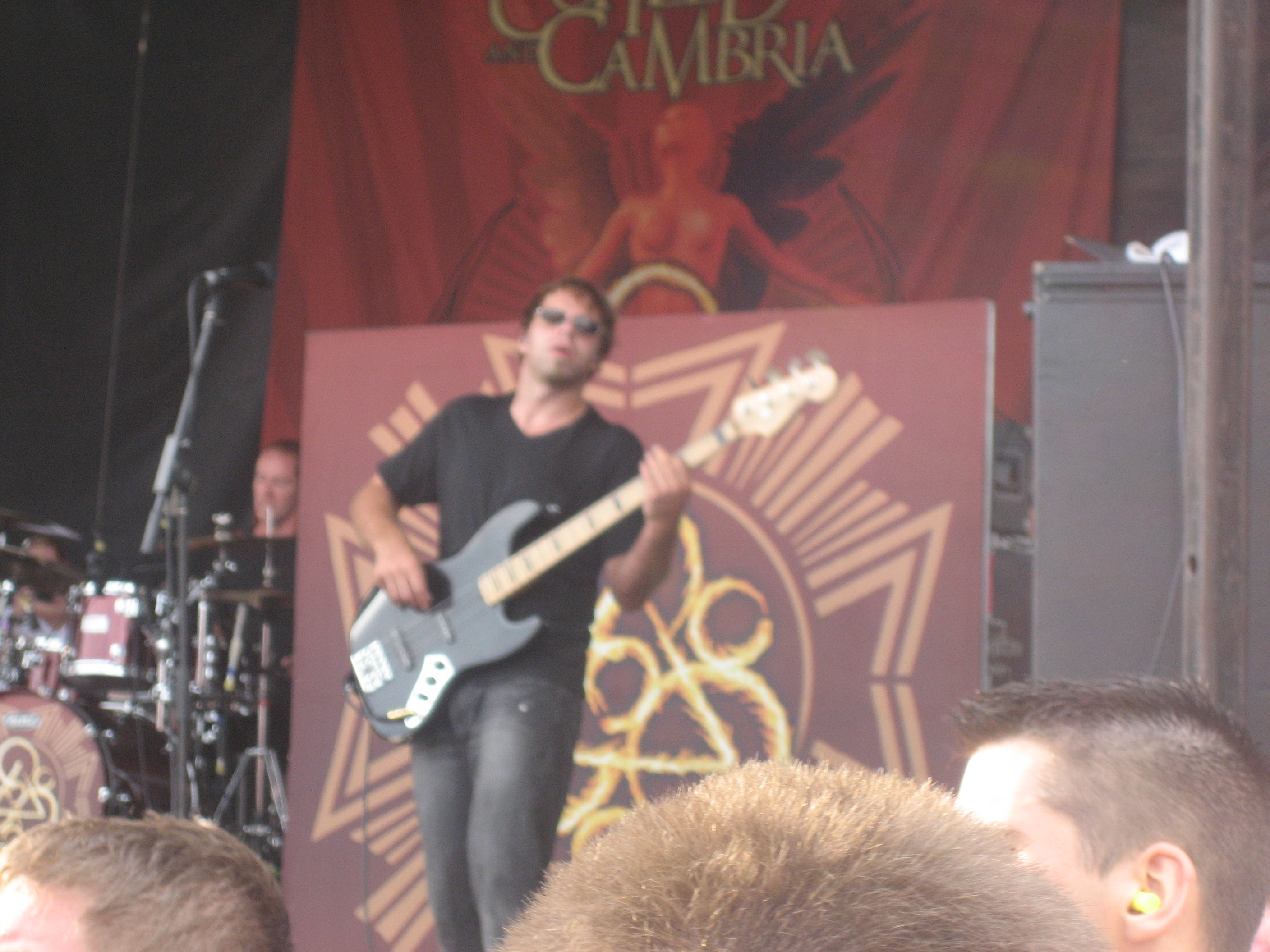 Mic Todd at Warped Tour '07